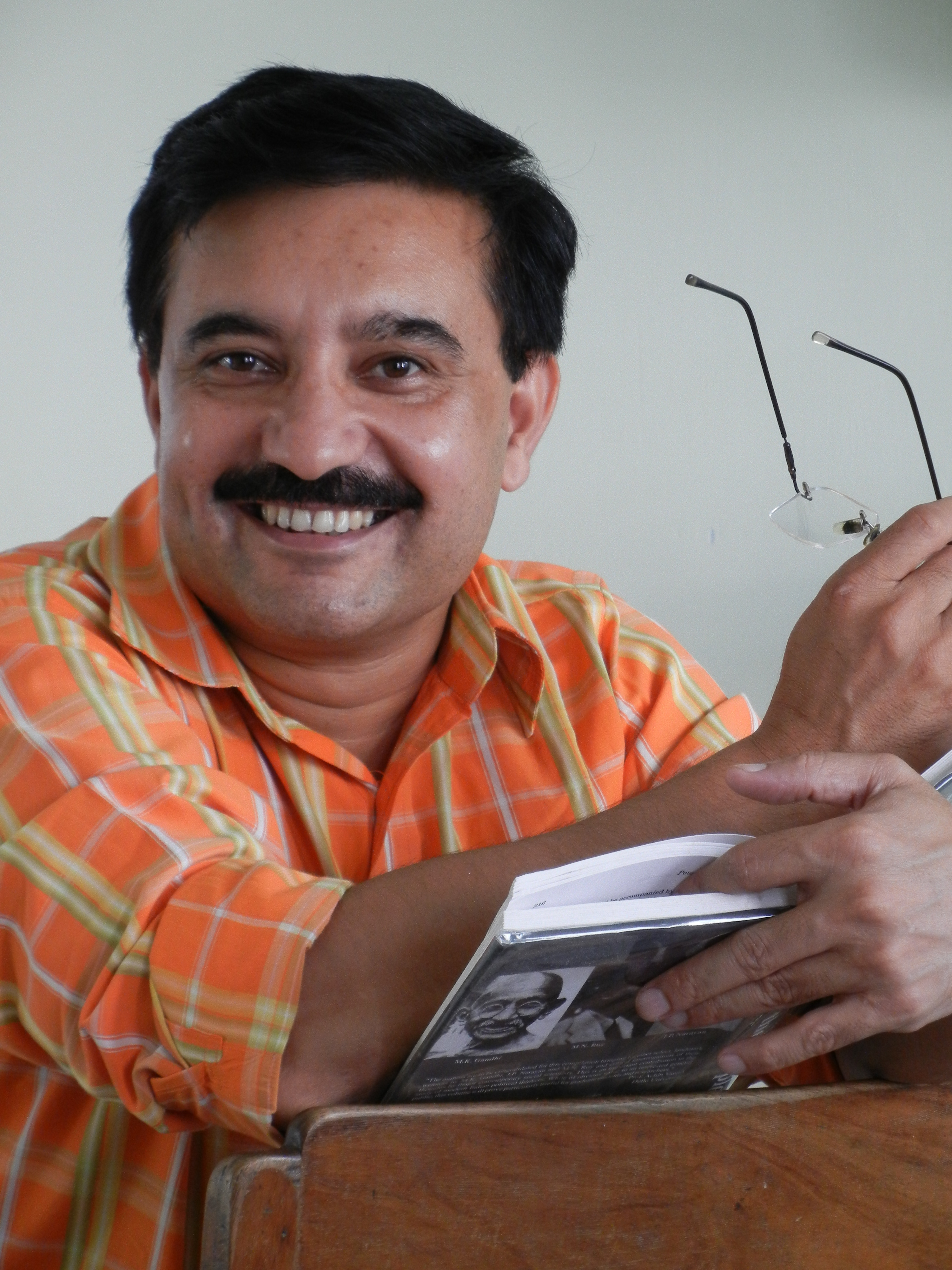 Social Activist - Hemant Goswami Picture clicked at Chandigarh, India